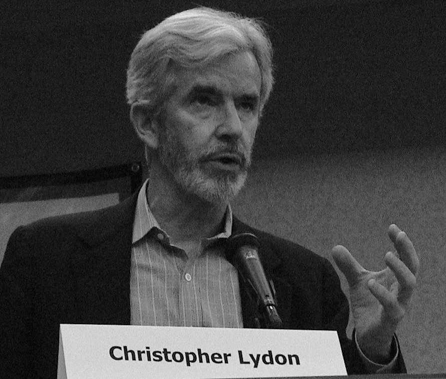 Christopher Lydon speaking at Rebecca Lieb on a panel at Jupitermedia ClickZ Weblog Business Strategies 2003 Conference.